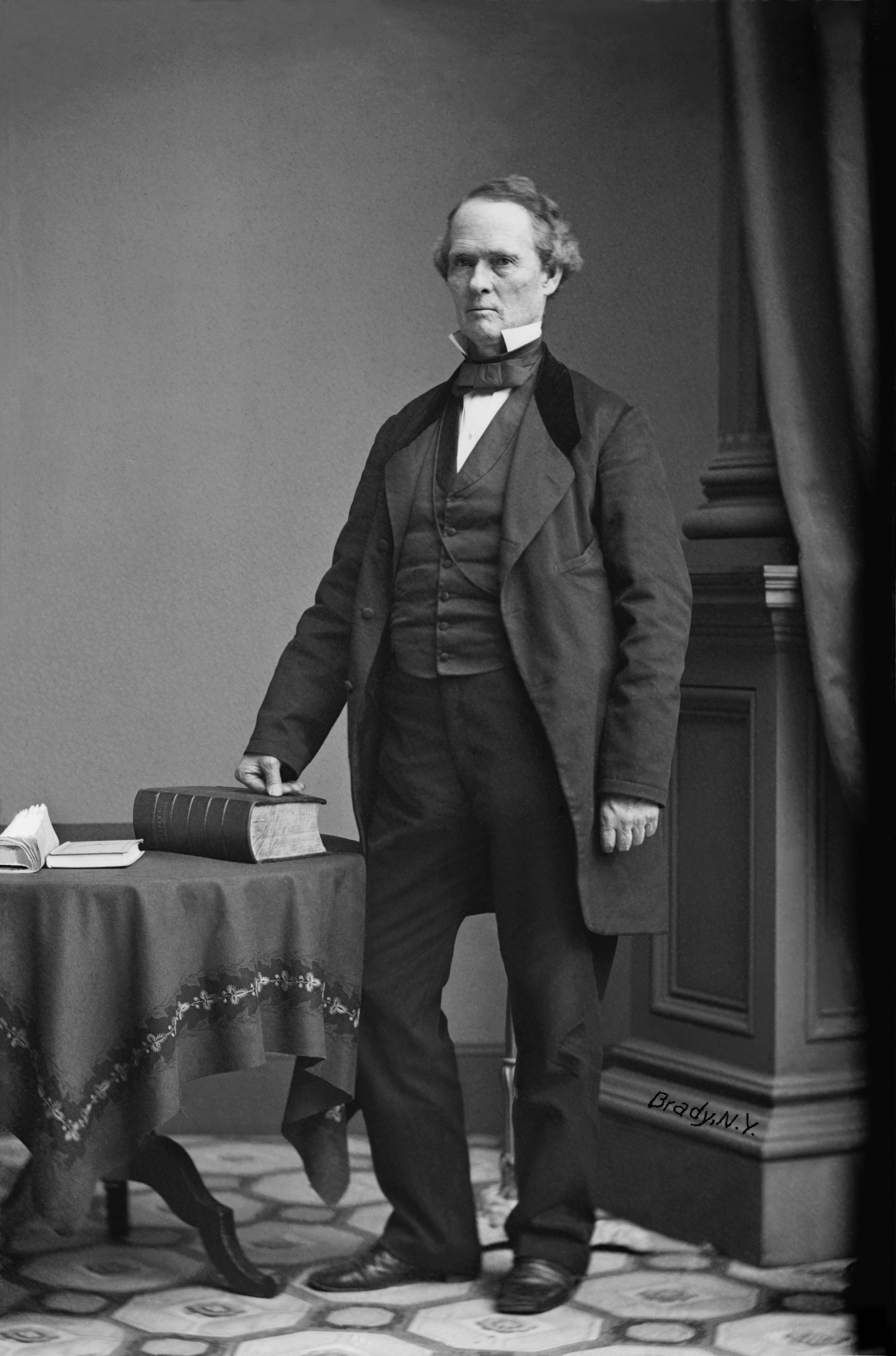 Hon. Joseph Lane of Oregon